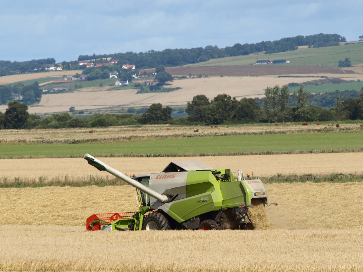 Gairneybridge Harvest – A Claas Tucano 430 combine harvester working at West Brackley Farm near Loch Leven, Scotland, UK.